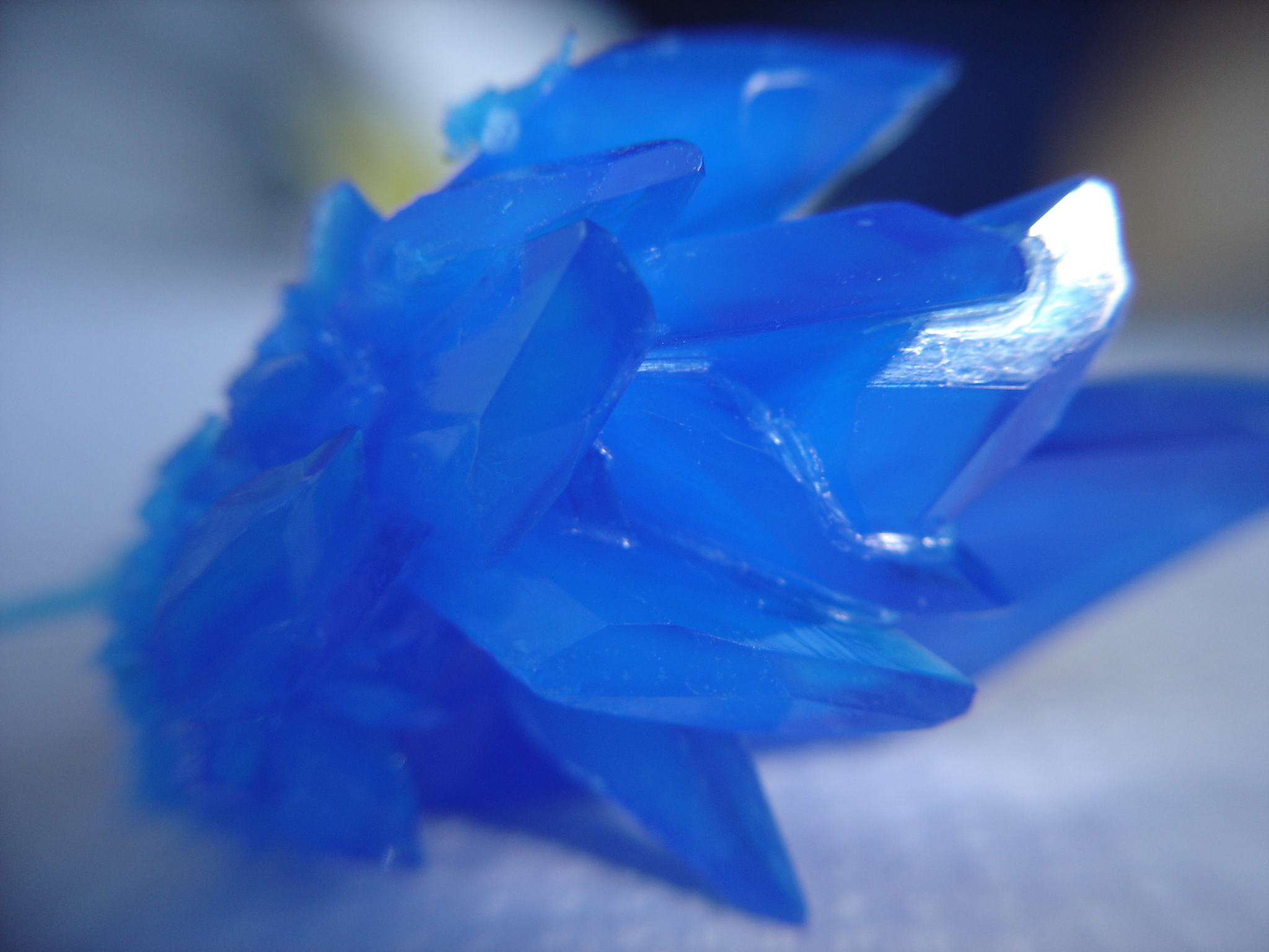 Crystal